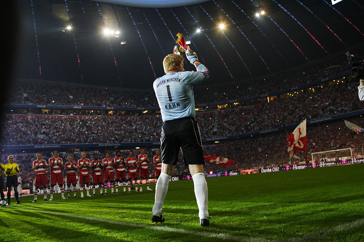 Football: Oliver Kahn of FC Bayern Munich waves his hand during his lap of honor at his farewell match between FC Bayern Munich and Germany at the Allianz Arena on 2nd September 2008 in Munich, Germany. (Photo by Tsutomu Takasu)